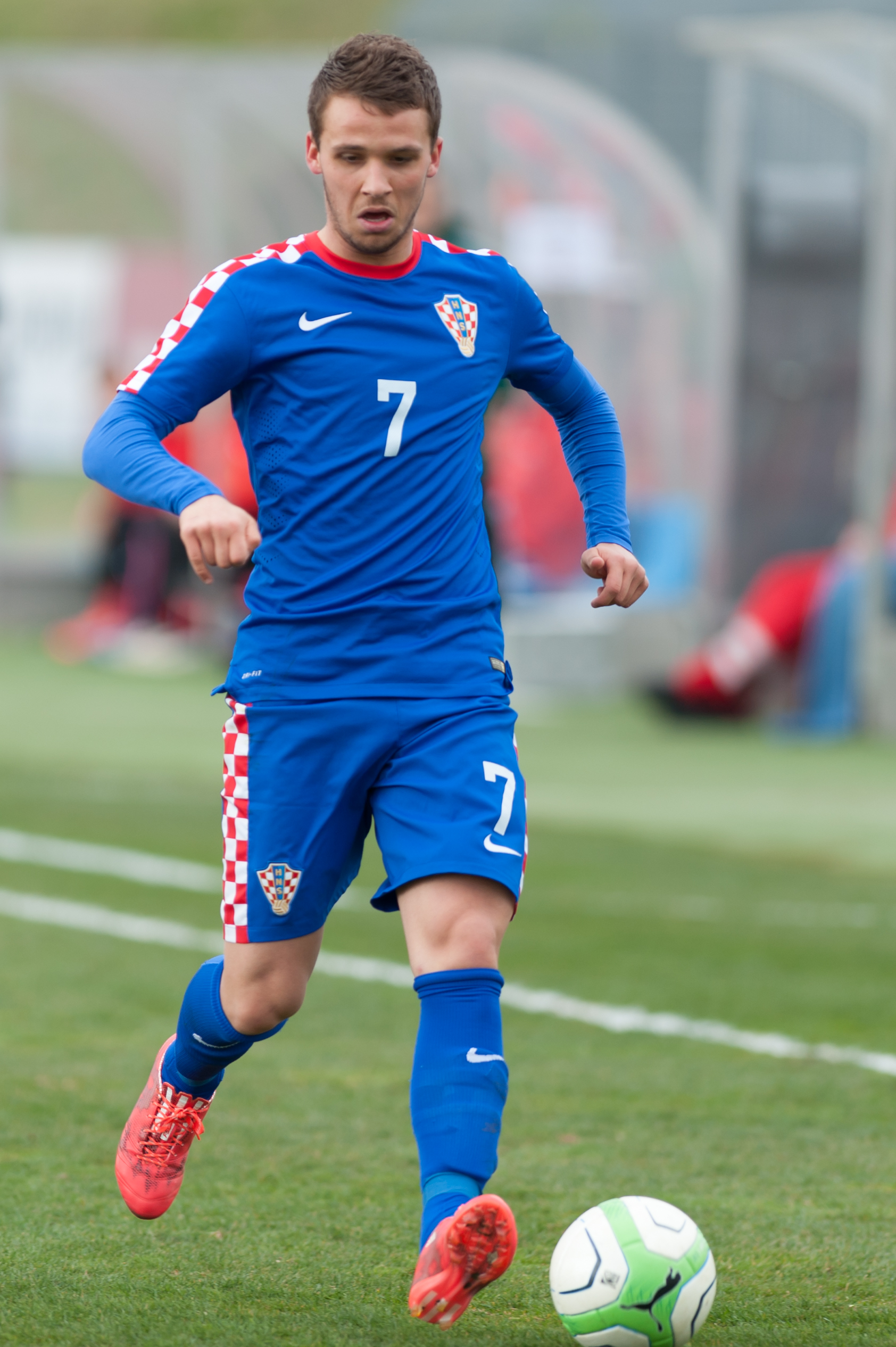 European Under-19 Championships 2015 Elite Round, Austria vs. Croatia, 28/03/2015 Wiener Neustadt, Lower Austria